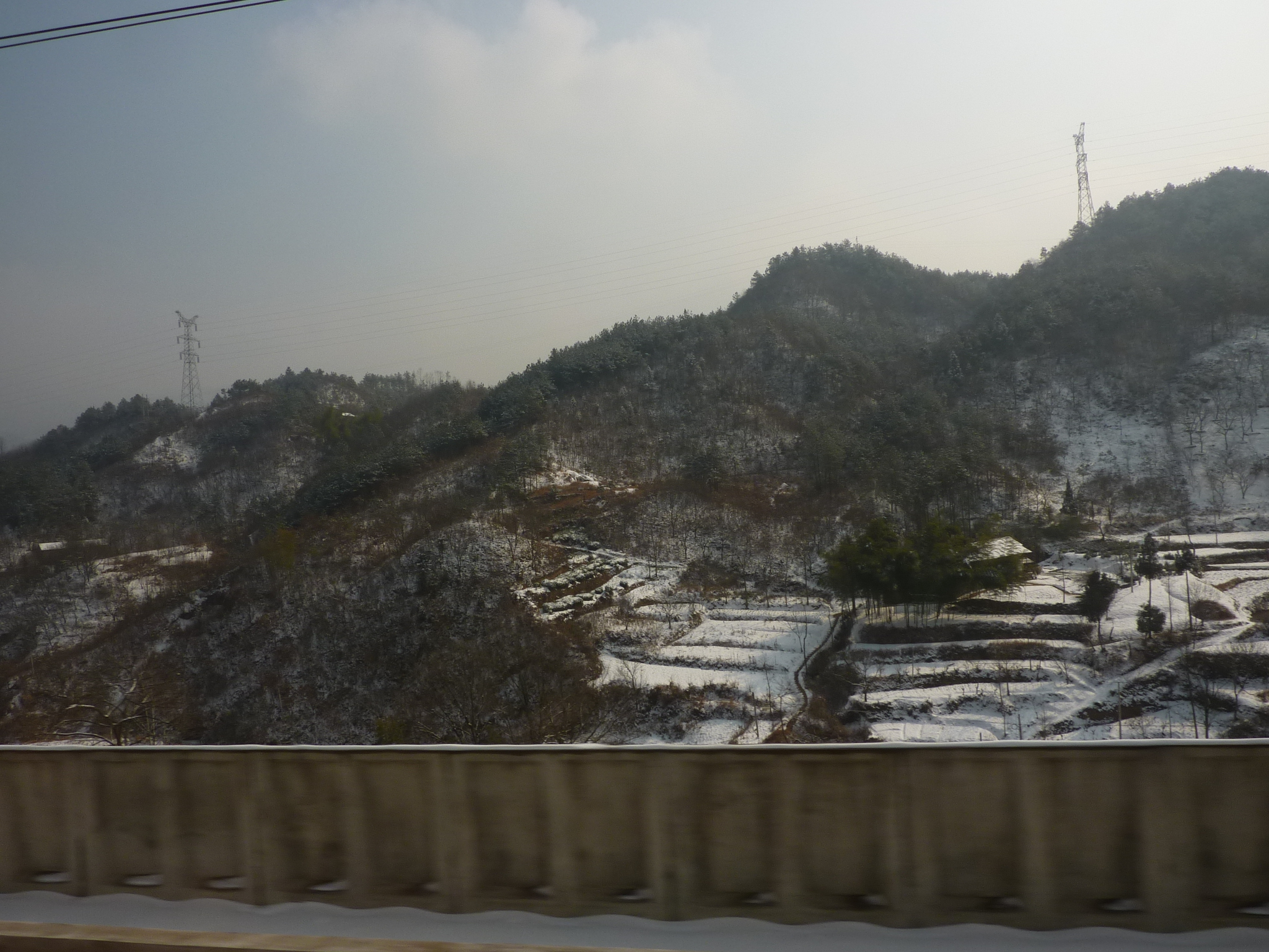 Mountainous landscapes (Dabie Mountains) of Jinzhai County, Anhui, seen form a train running on the Hewu (Henan-Wuhan) Railway.